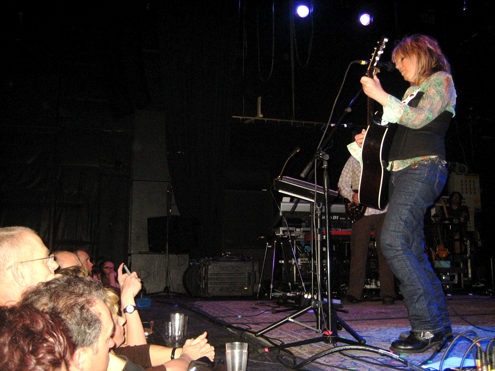 Lucinda Williams @ Roots of Heaven IX, Patronaat, Haarlem, The Netherlands, 10 November 2007